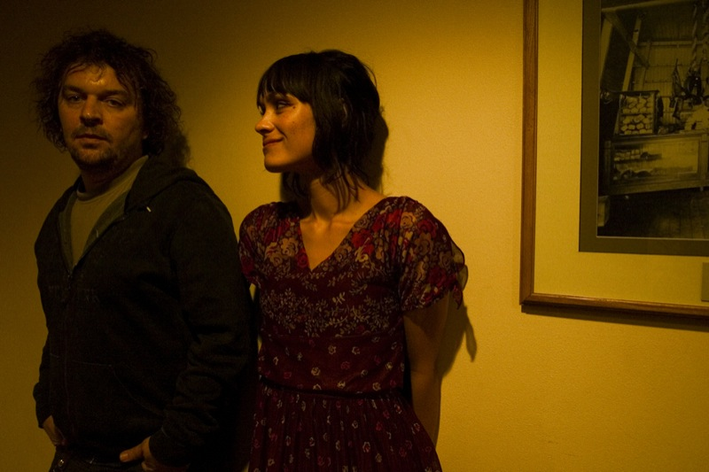 Entrevista a Goran Dukic y Shannyn Sossamon, por Wristcutters, a Love Story Park City, Utah, EEUU Foto: Toni Verd